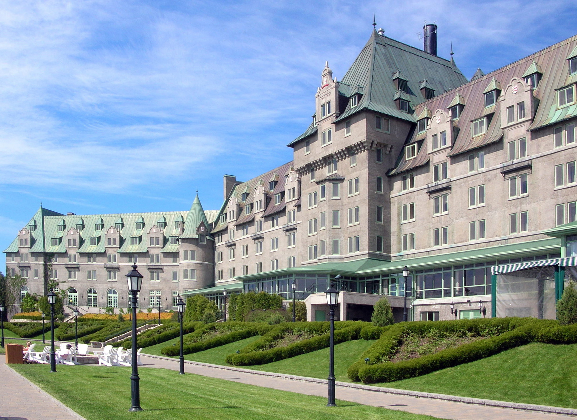 Hotel Fairmont Le Manoir Richelieu, La Malbaie, province of Quebec, Canada